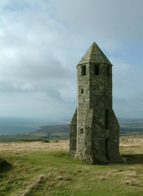 St. Catherine`s Oratory Locally know as the Pepperpot. Dating from about 1320, it was erected by Walter de Godeton as an act of penance for plundering wine from the wreck of St. Marie of Bayonne in Chale Bay.